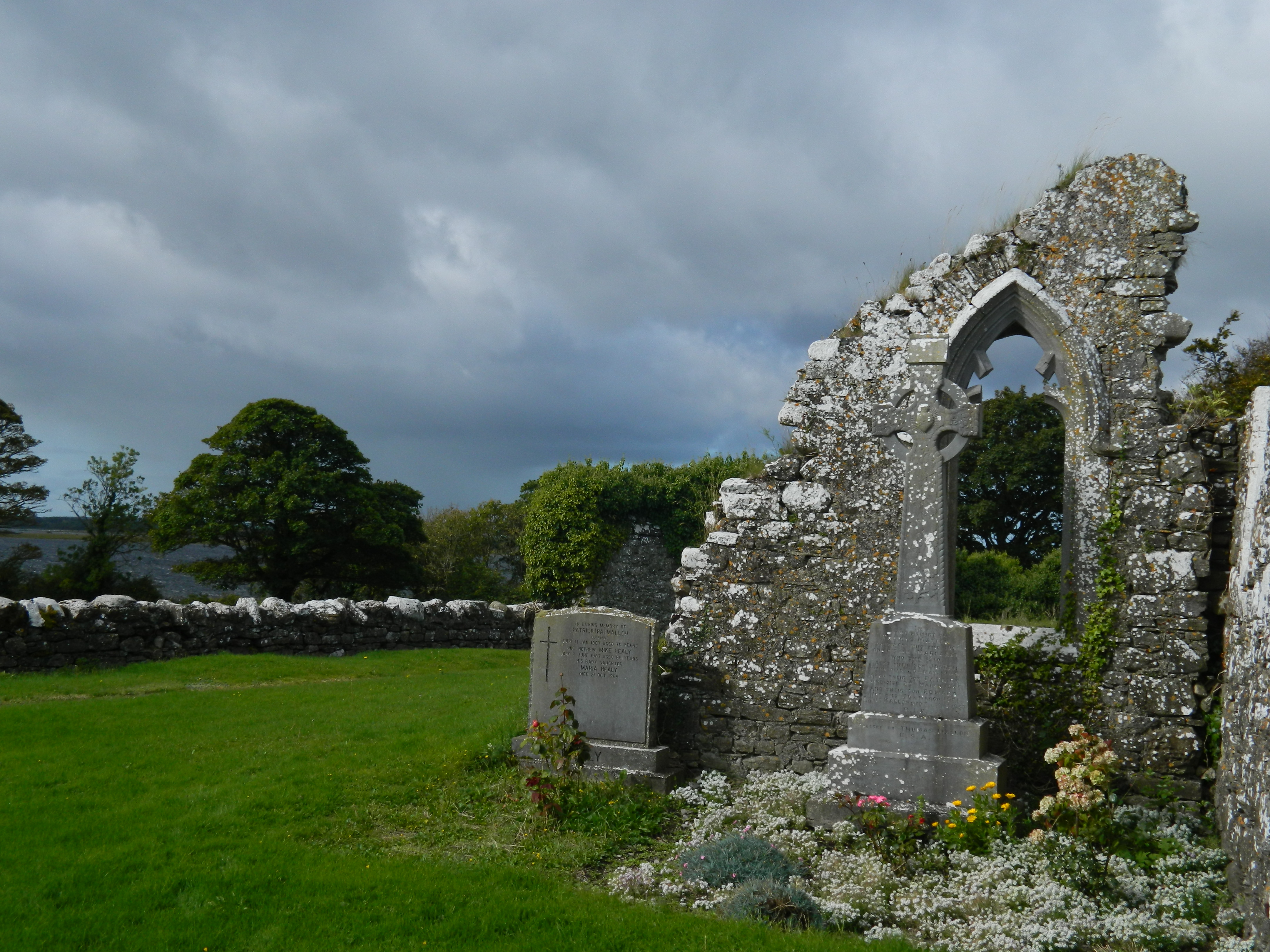 Saints Island Priory